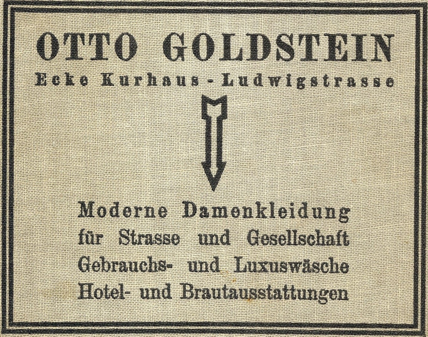 Advertisement of merchant Otto Goldstein in address book of Bad Kissingen 1928-1930